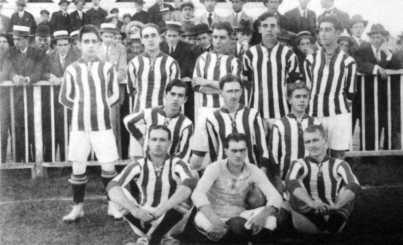 Grêmio Foot-Ball Porto Alegrense team of 1917. (up): Carneiro, Berdehegaray, Rodríguez, Jorge Py, Scalco. (middle): Dorival, Hanssen, Chiquinho. (down): Garibotti, Kunz, Mohrdieck.